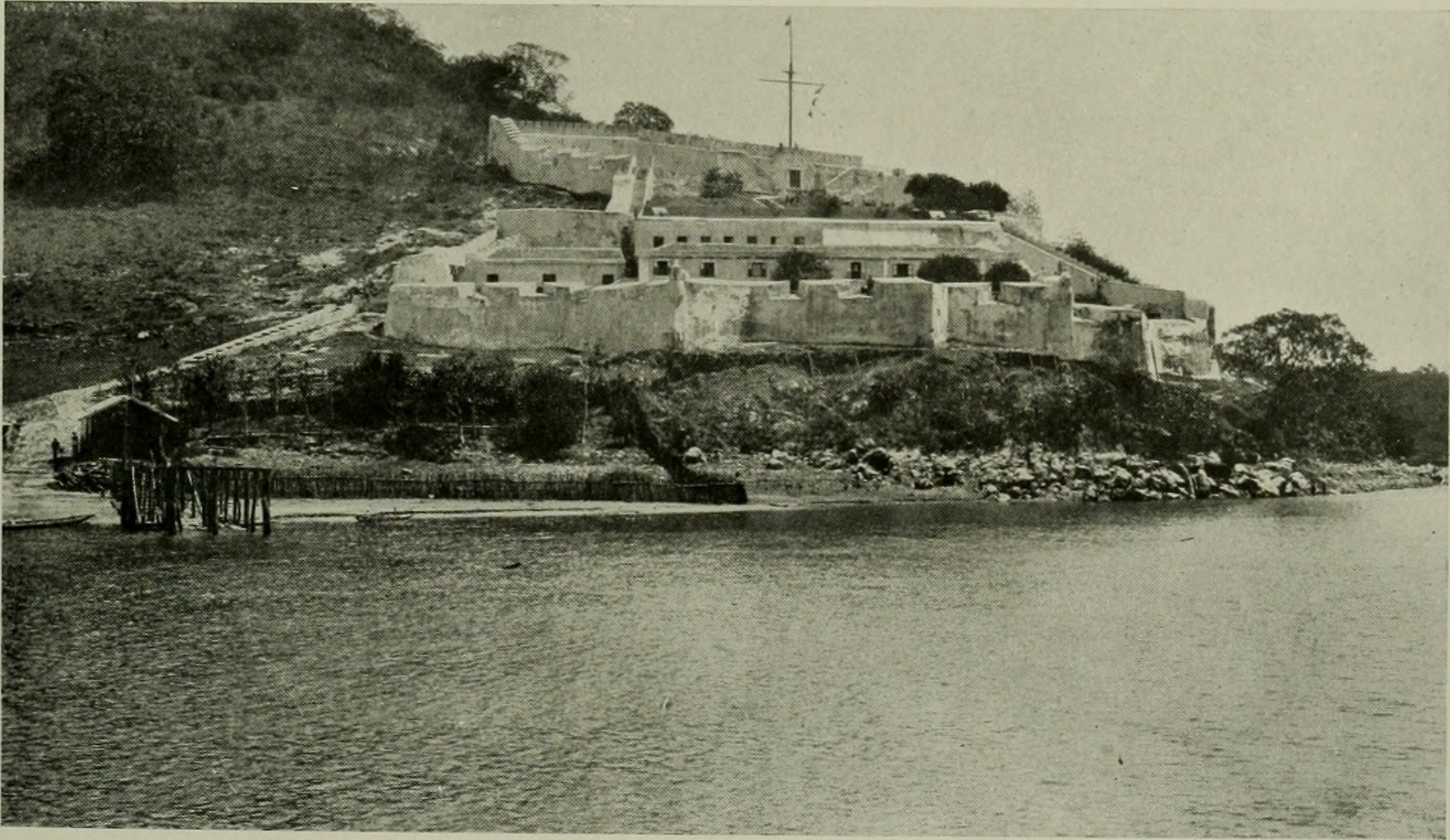 Title: The American Museum journal Year: c1900-(1918) (c190s) Authors: American Museum of Natural History Subjects: Natural history Publisher: New York : American Museum of Natural History Text Appearing Before Image: The public market place in Asuncion, Paraguay.— Asuncion, which has been the scene of five revolutions in as many years, shows plainly the marks of violence which it has suffered. An air of de- pression hangs over the city, business activity is at a standstill and women are seen everywhere in deep mourning Text Appearing After Image: Fort Coimbra on the Paraguay River.— Built on the rocky liillside near the dividing line between Brazil and Bolivia, it has figured in many of the conflicts between these two coimtries